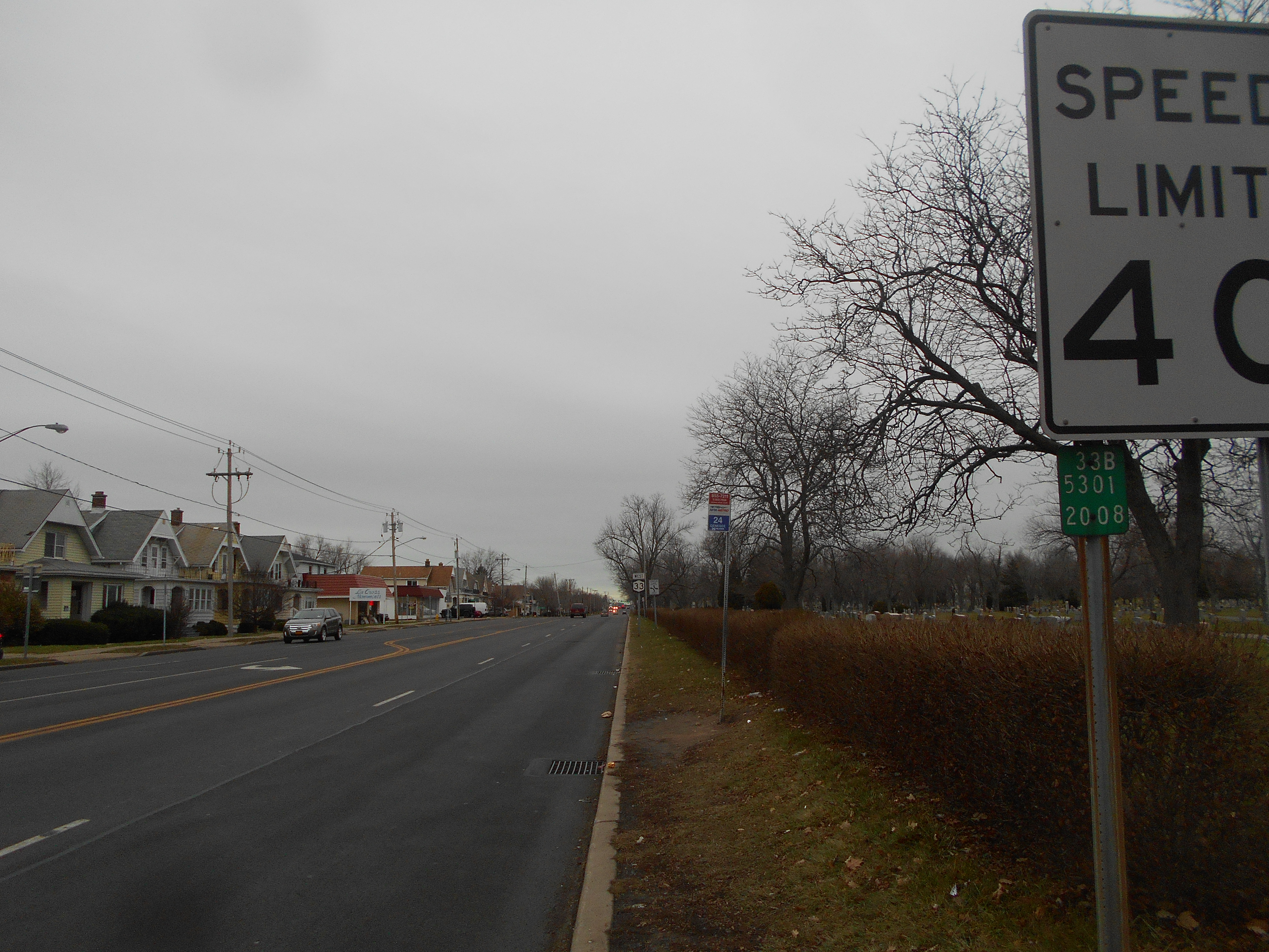 The former third incarnation New York State Route 33B in Cheektowaga, New York, erroneously signed as New York State Route 33 in the distance.